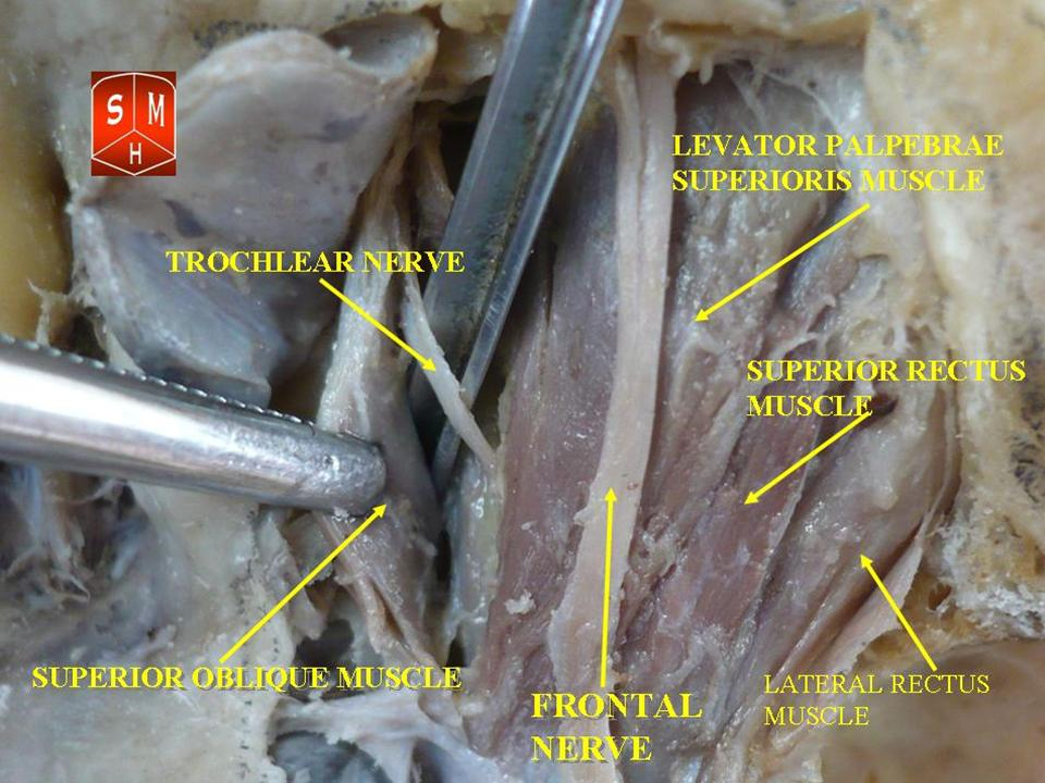 Trochlear and frontal nerves